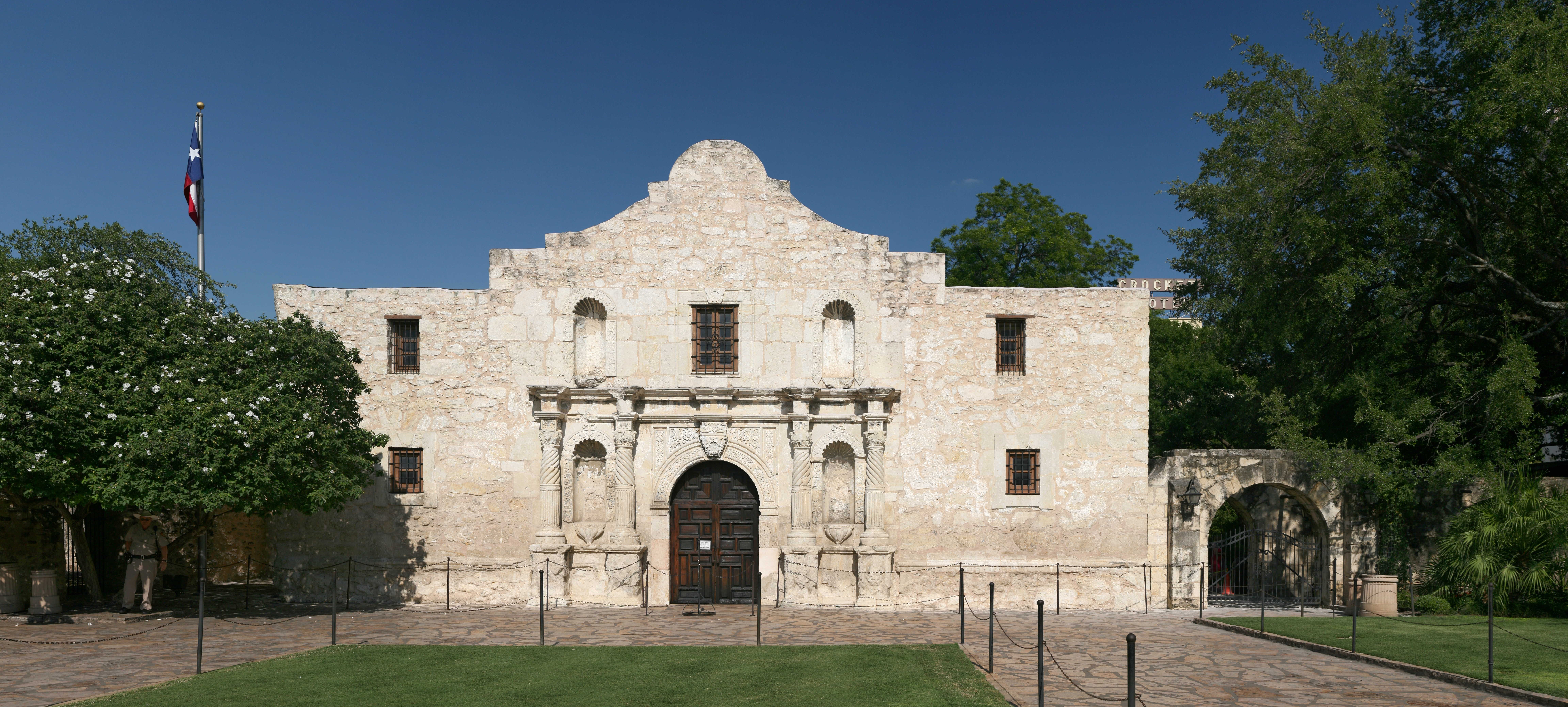 The Alamo in San Antonio, Texas, USA This image was created with Hugin.